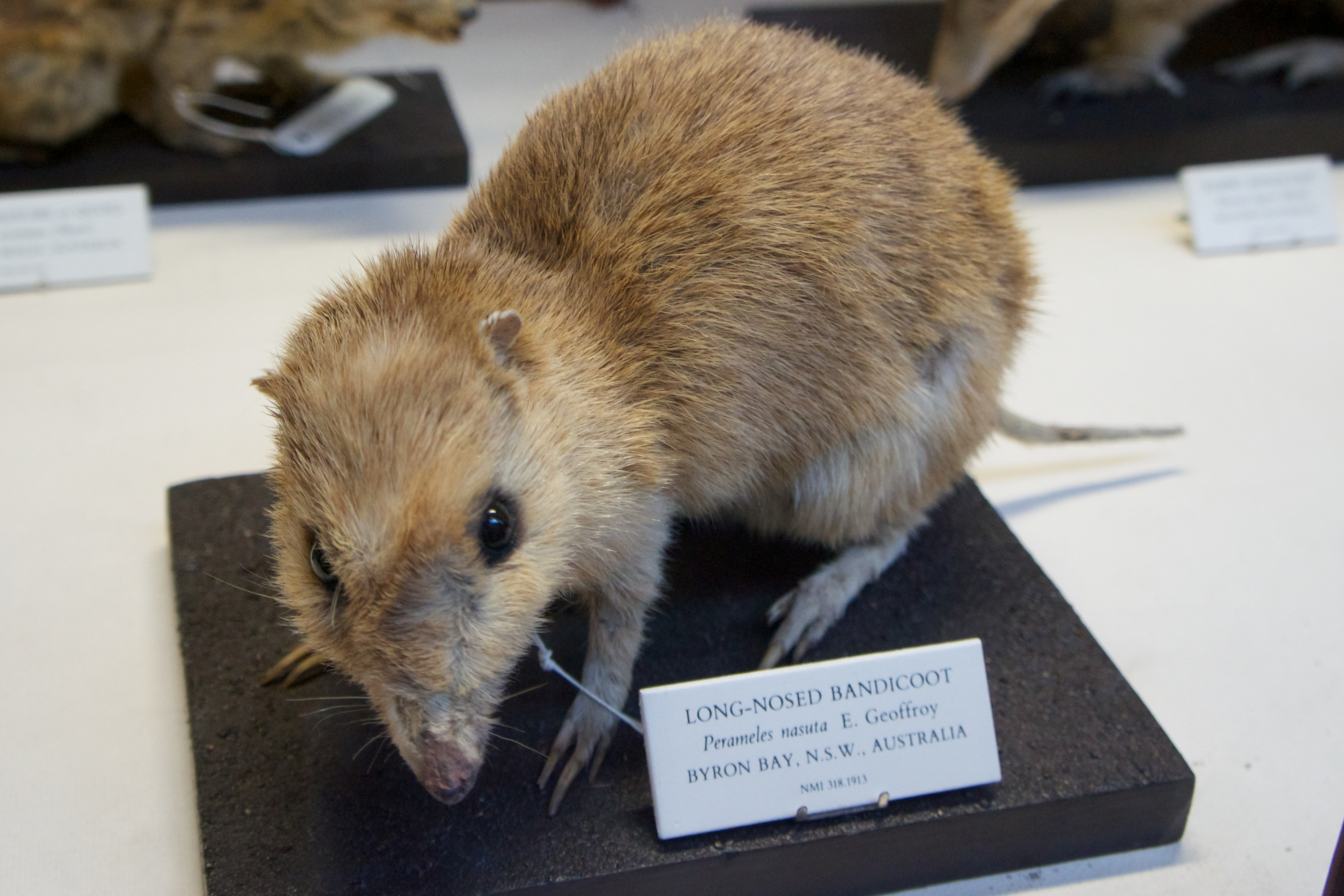 Bandicoot